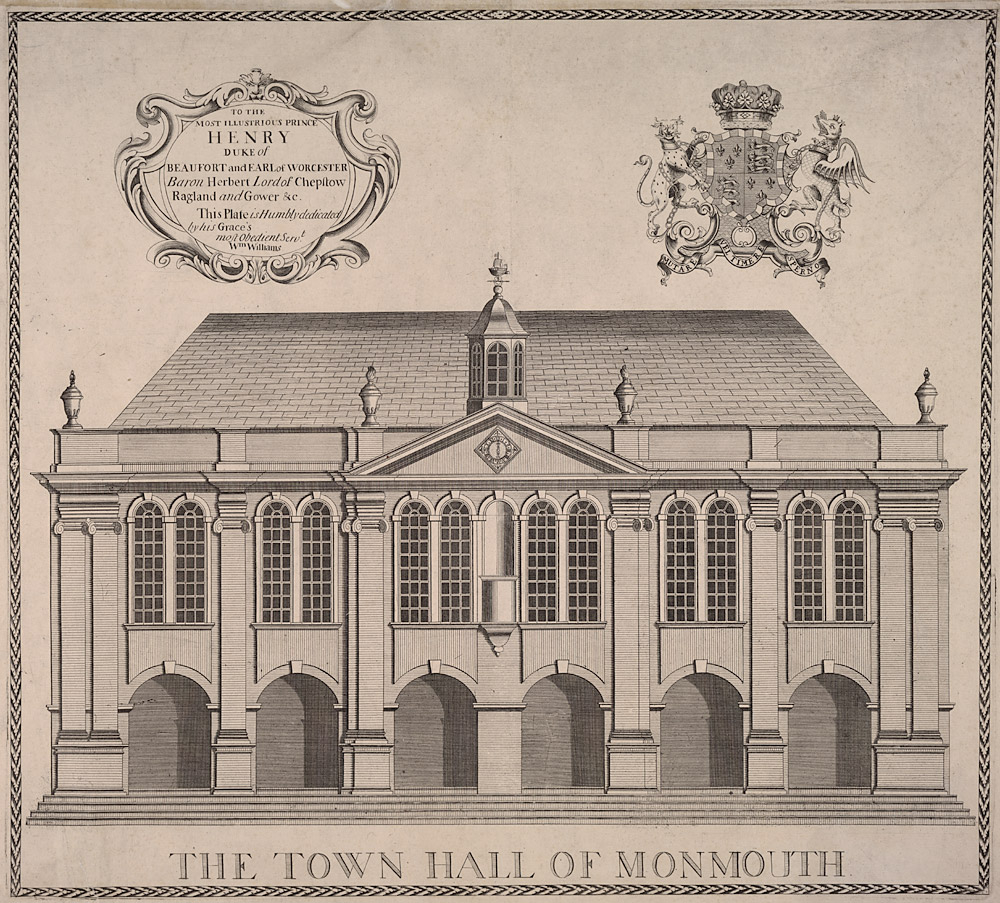 1 print : engraving, b&w ; image size 385 x 428 mm., paper size 426 x 465 mm.